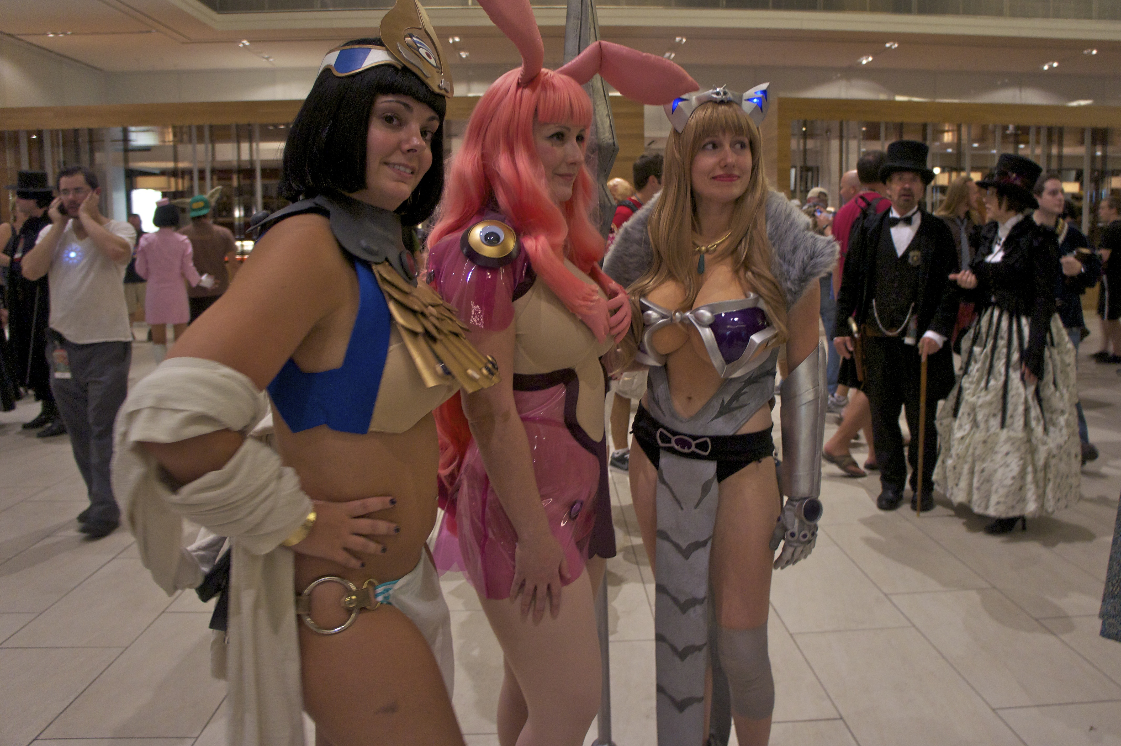 Queen's Blade cosplay at Dragon Con 2011